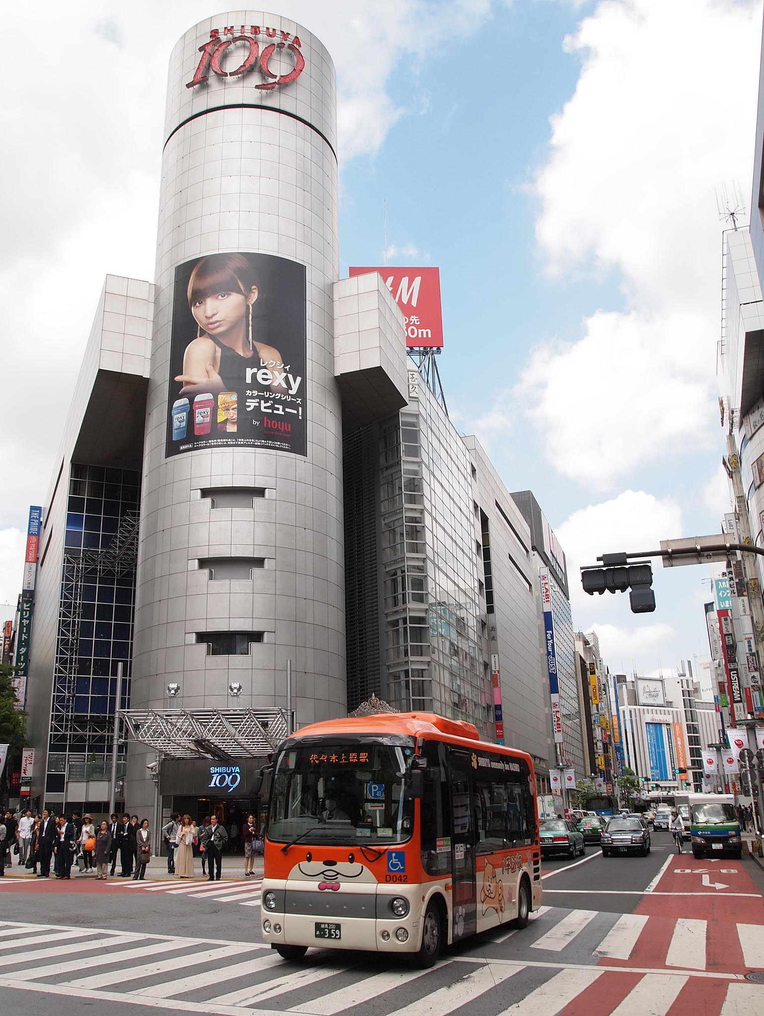 "Hachiko Bus" through Bunkamura-Dori street. Model: Hino Poncho HX6JHAE License plate: TKN200 A-359